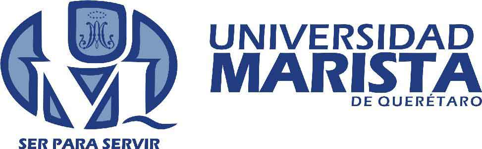 Marista Qro.